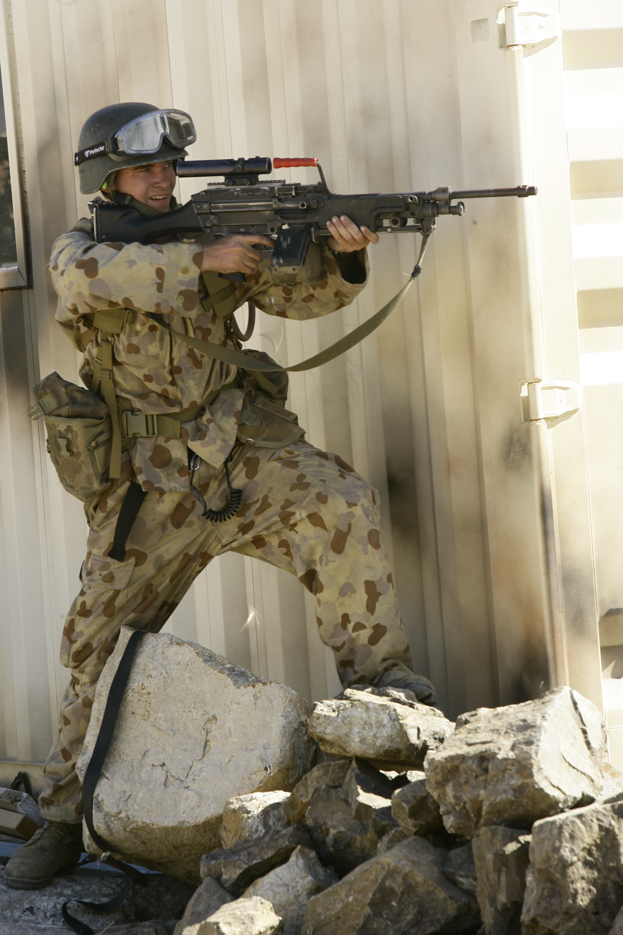 An Australian Defence Force soldier with the 5th Royal Australian Regiment fires an F-89 Minimi rifle at the urban operations training facility July 22, 2009, at Shoalwater Bay Training Area, Australia, during Exercise Talisman Sabre 2009.